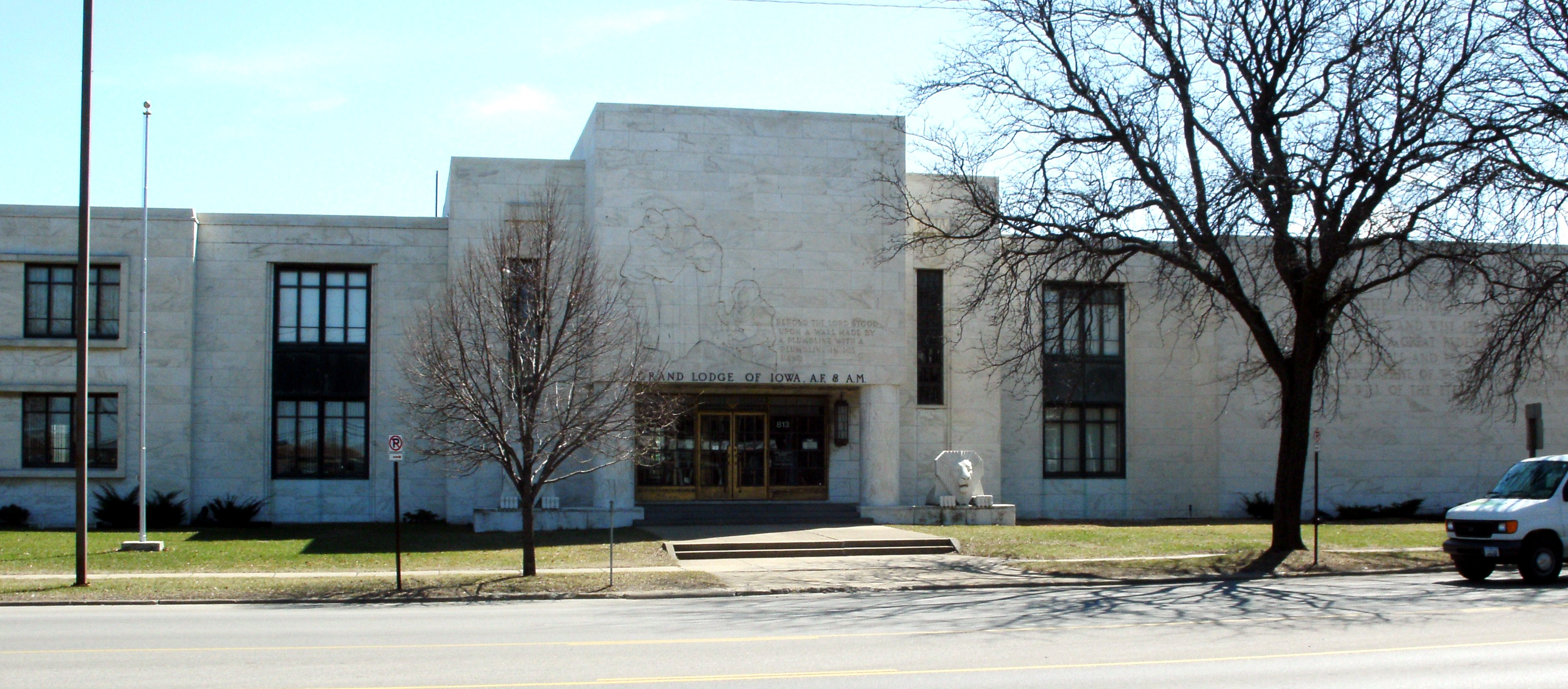 The Iowa Masonic Library, Museum and Administration Building also called the Grand Lodge of Iowa building or the Iowa Masonic Library and Museum is located at 813 First Ave. SE, in Cedar Rapids, Iowa. Built in 1955 the building's exterior is constructed of marble.